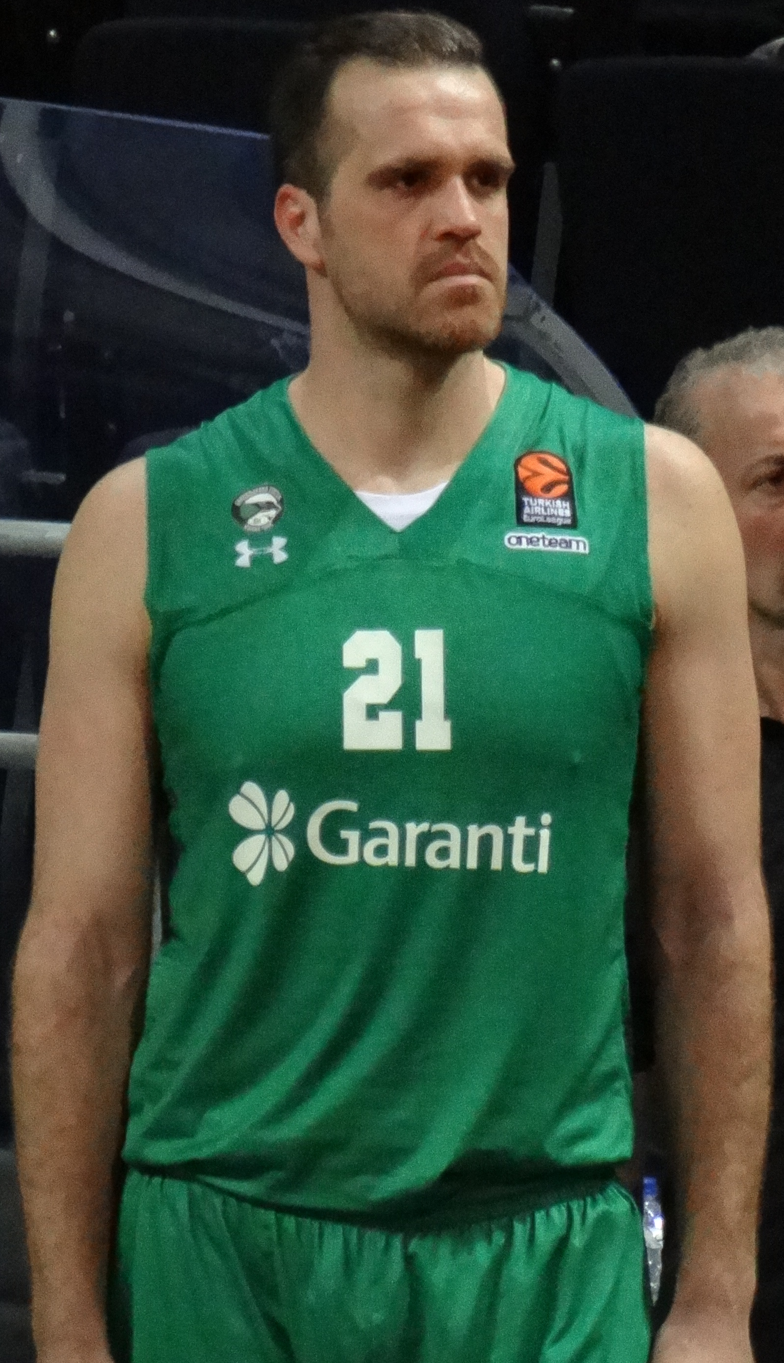 Oğuz Savaş 21 Darüşşafaka Tekfen 20181120